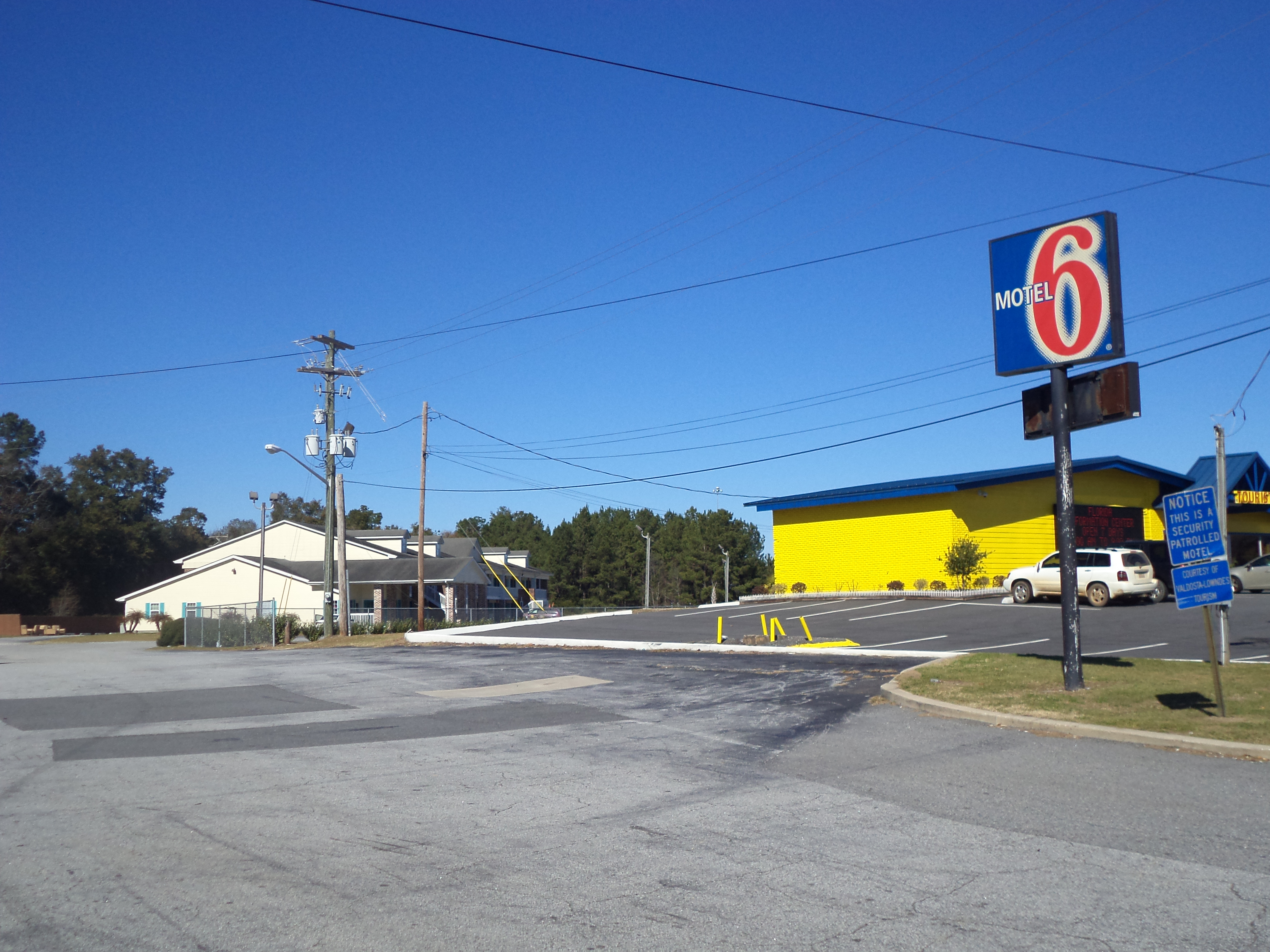 Motel 6 (SE corner), 6972 Bellville Rd, Lake Park, Lowndes County, Georgia. This has a Lake Park address but is not physically in the city.